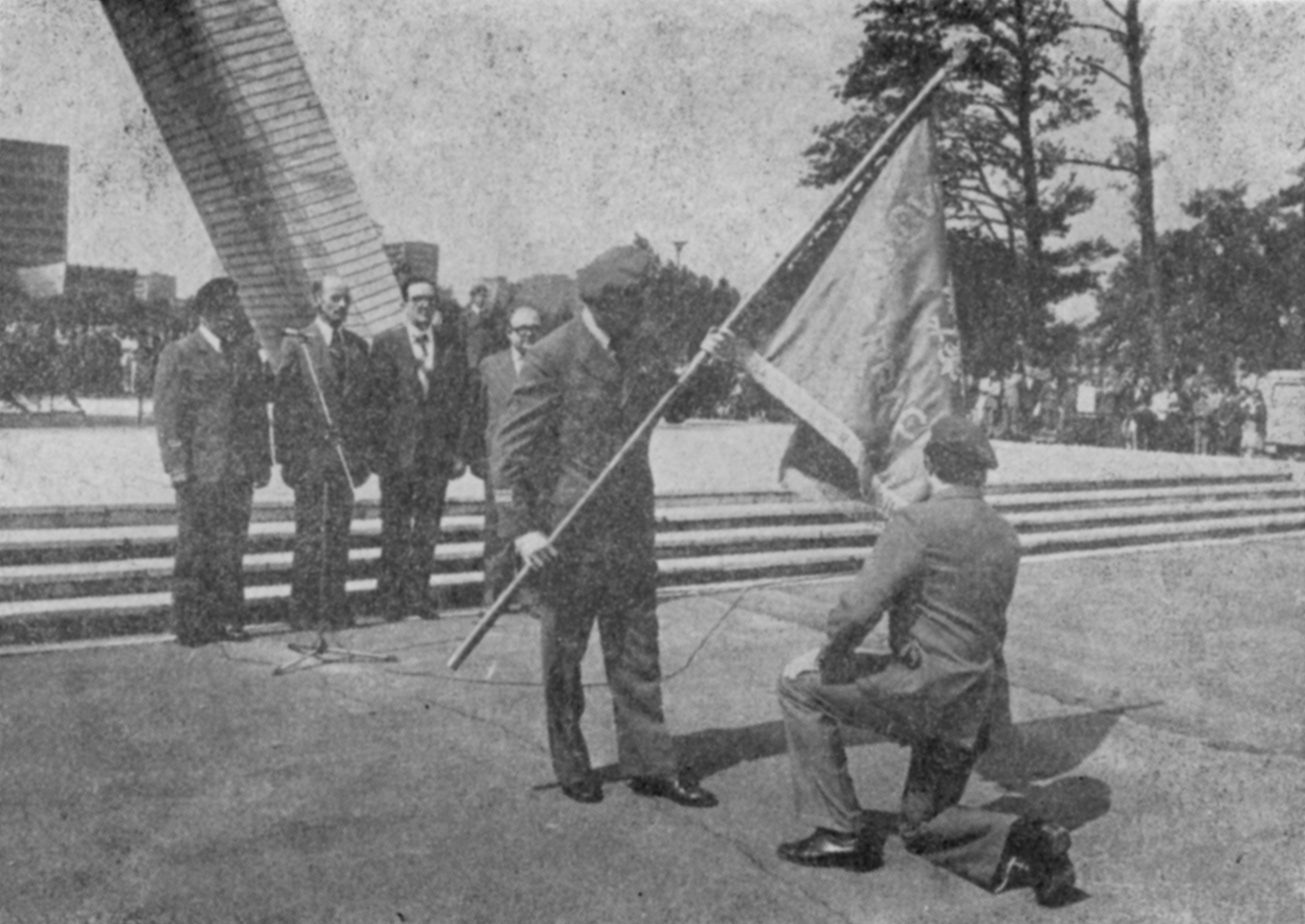 The oath of "junak" of Voluntary Labour Corps (Ochotnicze Hufce Pracy) in People's Republic of Poland.